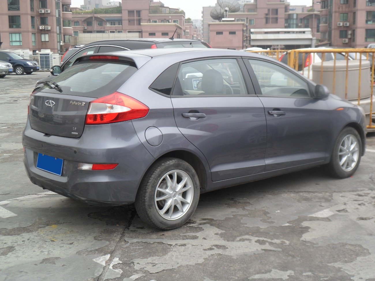 Chery Fulwin 2 hatch photographed in Shanghai, China.